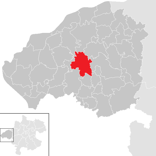 district Braunau am Inn